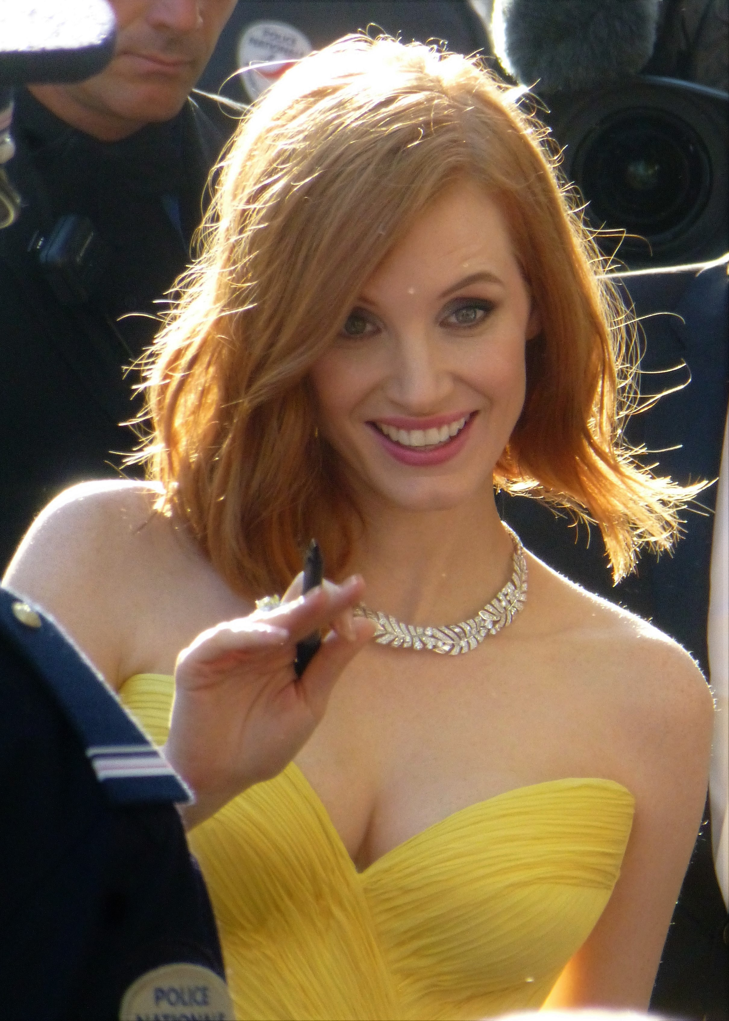 Jessica Chastain at the world premiere of Cafe Society, 2016 Cannes Film Festival